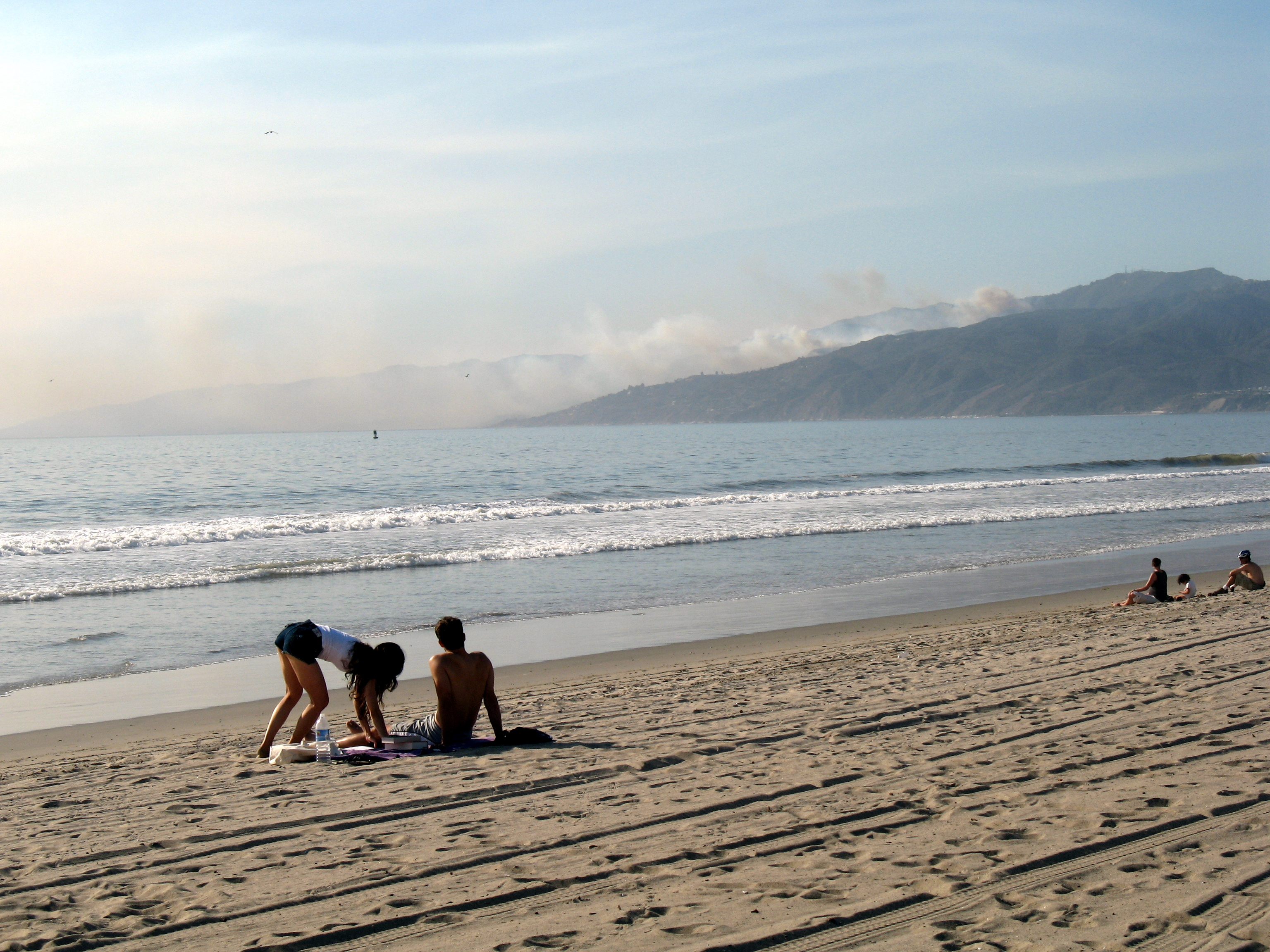 Frolicking while Malibu burns.